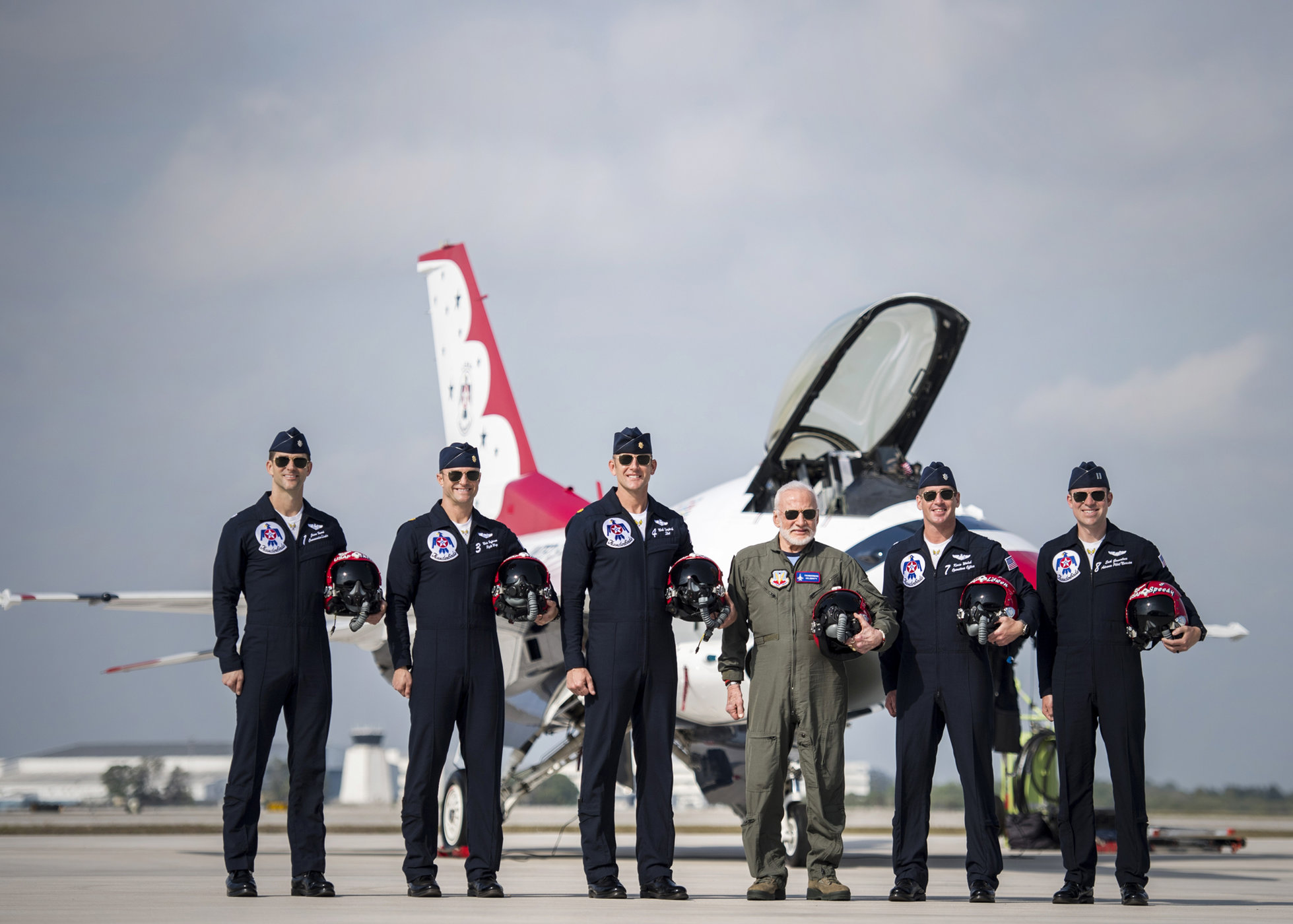 Thunderbirds pilots pose for a photo with retired Air Force Col. and astronaut Buzz Aldrin prior to his flight, April 2, 2017, at Melbourne, Fla. (U.S. Air Force Photo by Staff Sgt. Jason Couillard)